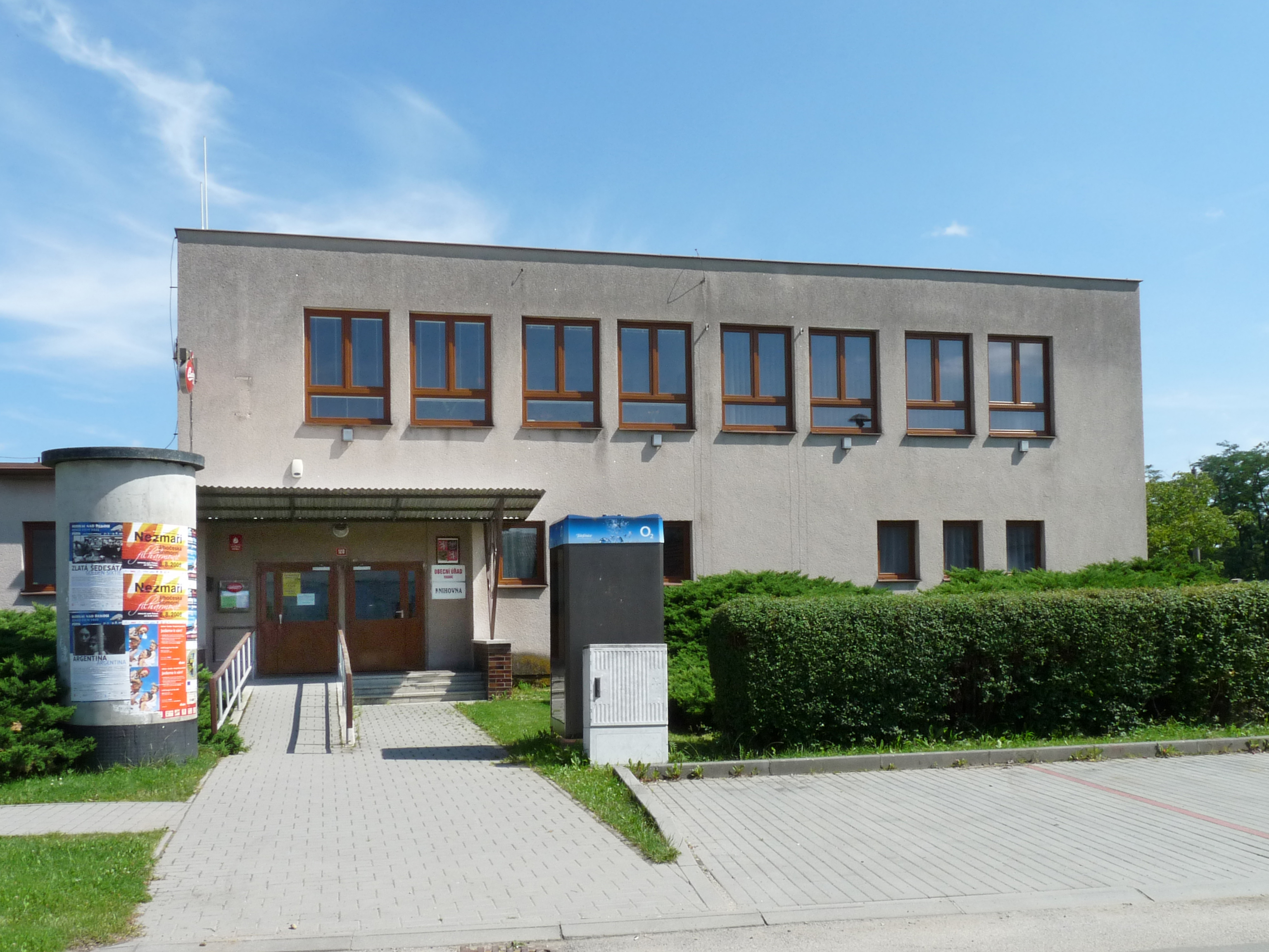 Municipal authority building in Roudné, České Budějovice district, Czech Republic